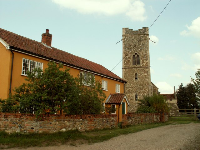 Church Cottage (left) and All Saints' parish church (centre right), Rede, Suffolk, seen from the west